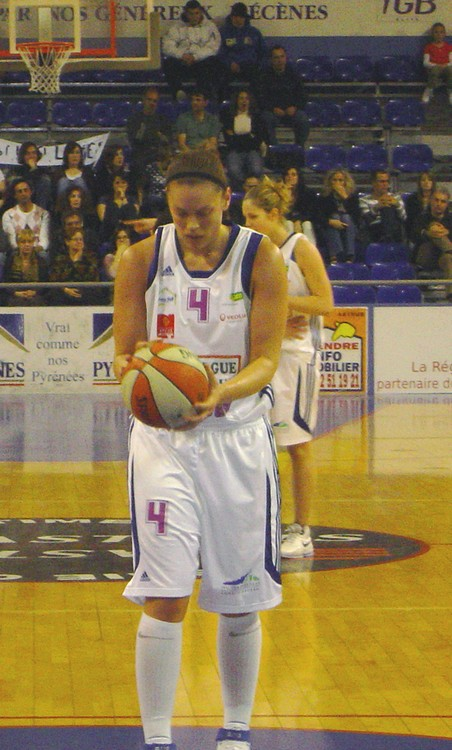 Photo de la joueuse de basket-ball Kristen Mann sous le maillot de Tarbes GBPicture of basketball player Kristen Mann with her French team of Tarbes GB